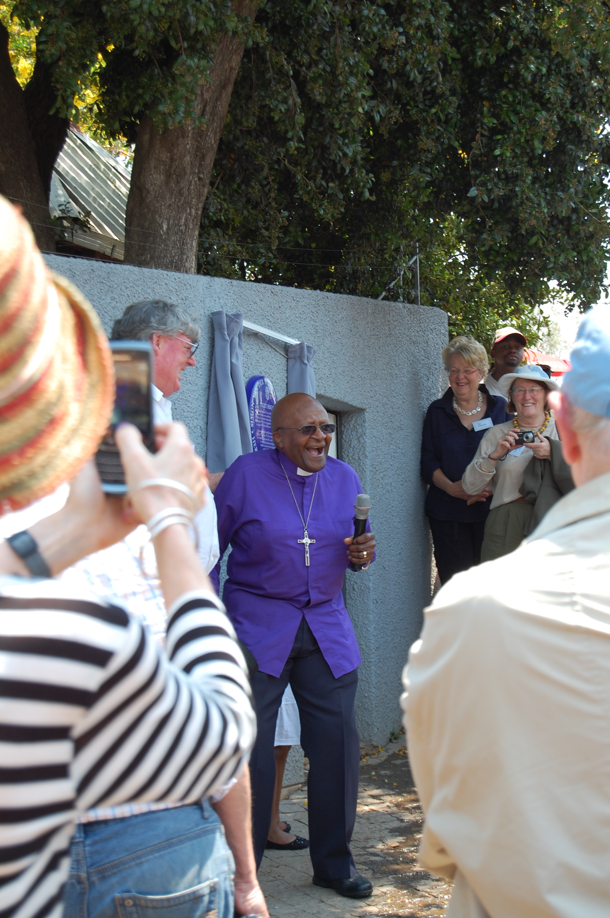 At the unveiling of plaque by Archbishop Desmond Tutu at his residence in Vilakazi Street.